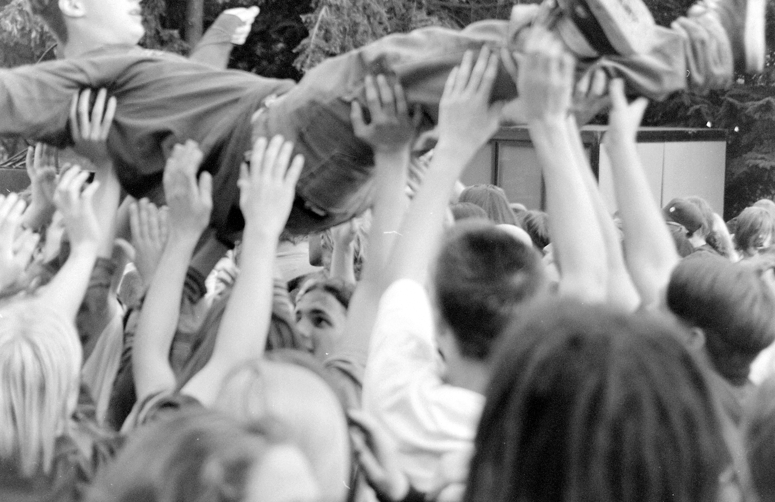 Crowdsurfing at a Pain in the Grass concert, Mural Amphitheater, Seattle Center, Seattle, Washington, USA. The concert featured 7 Year Bitch, Bloodloss, and Sleep Capsule.